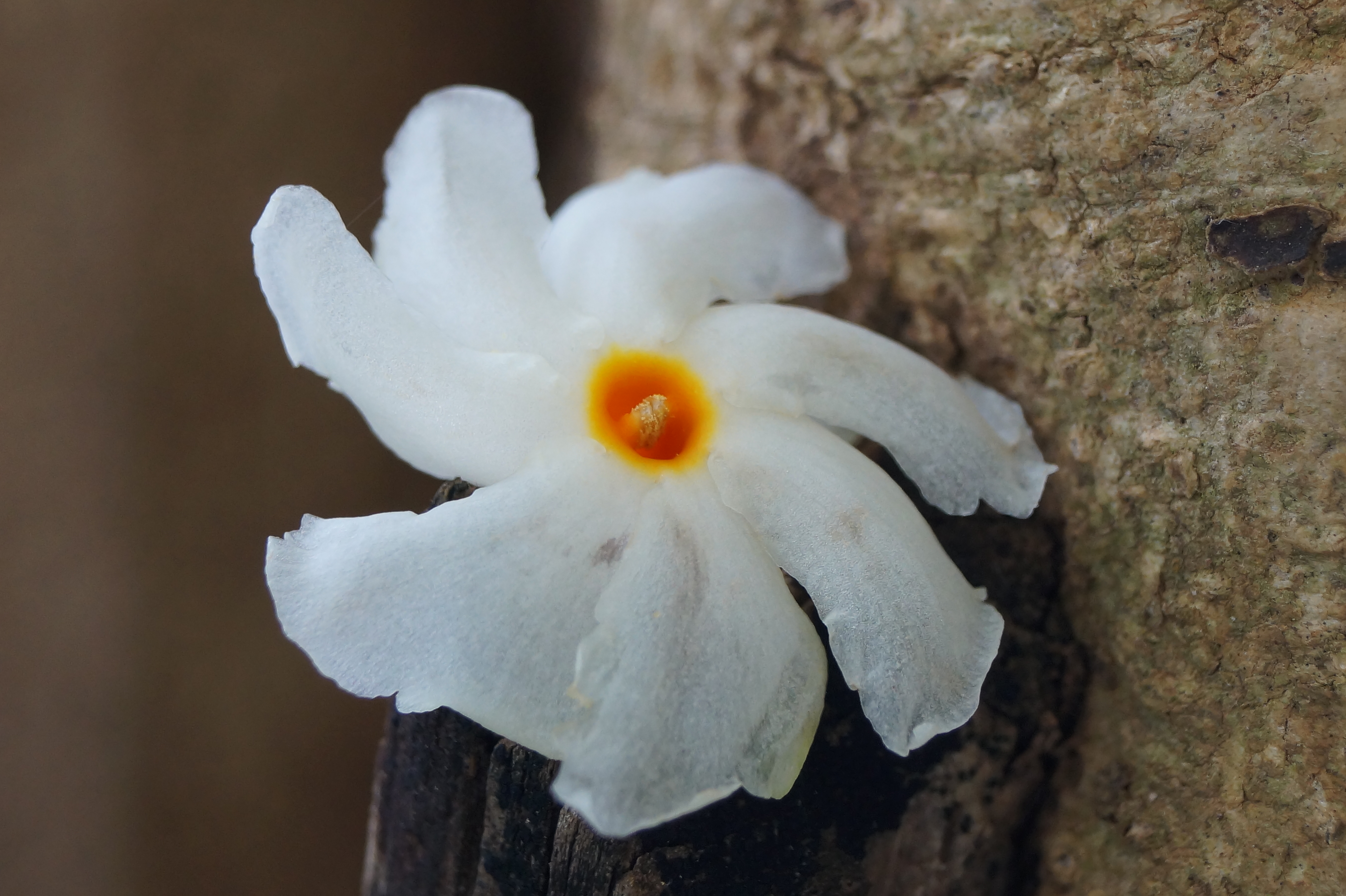 flower of coral jasmine